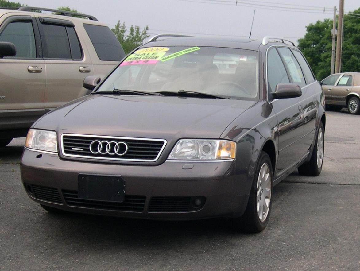 2000 Audi A6 2.8 Avant Quattro Source: Photo by User:Sfoskett